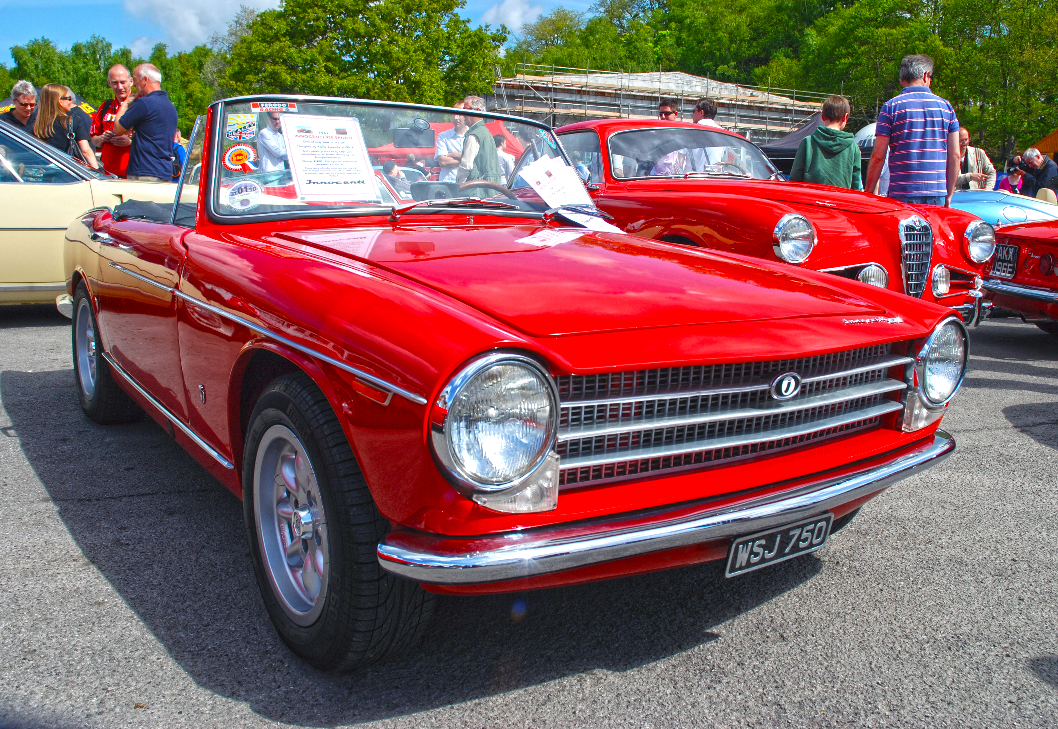 one of only 4 in the UK...Auto Italia,May 2009